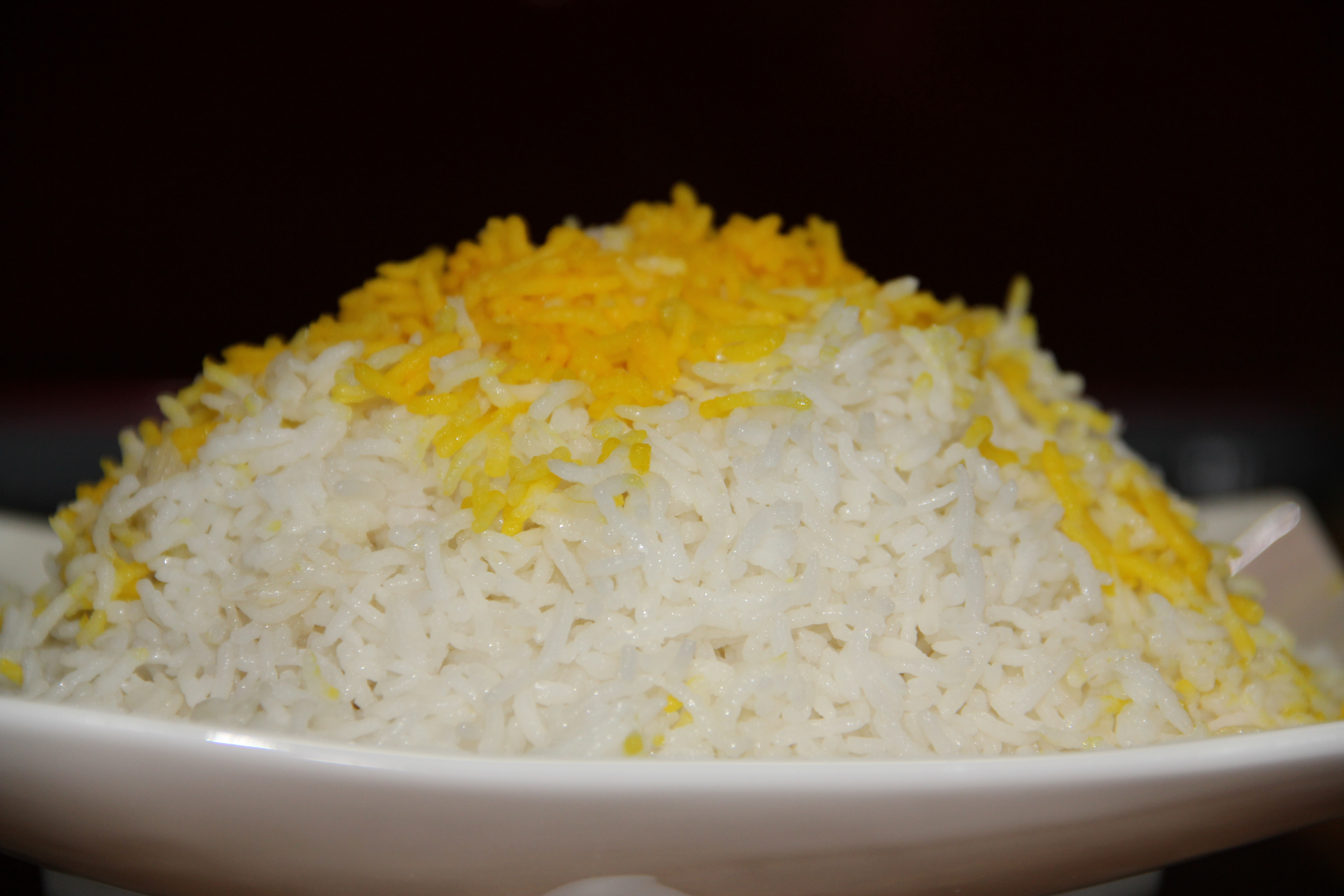 Chelow